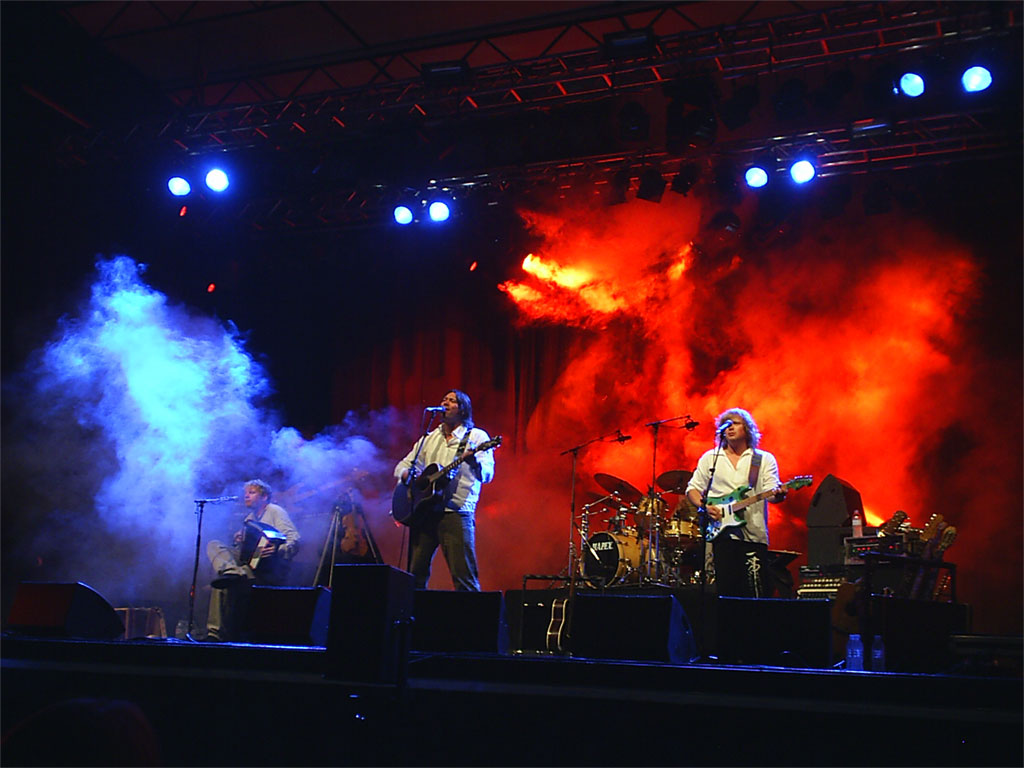 From Vamp's concert at Drammen Elvefestival, 19 August 2005.